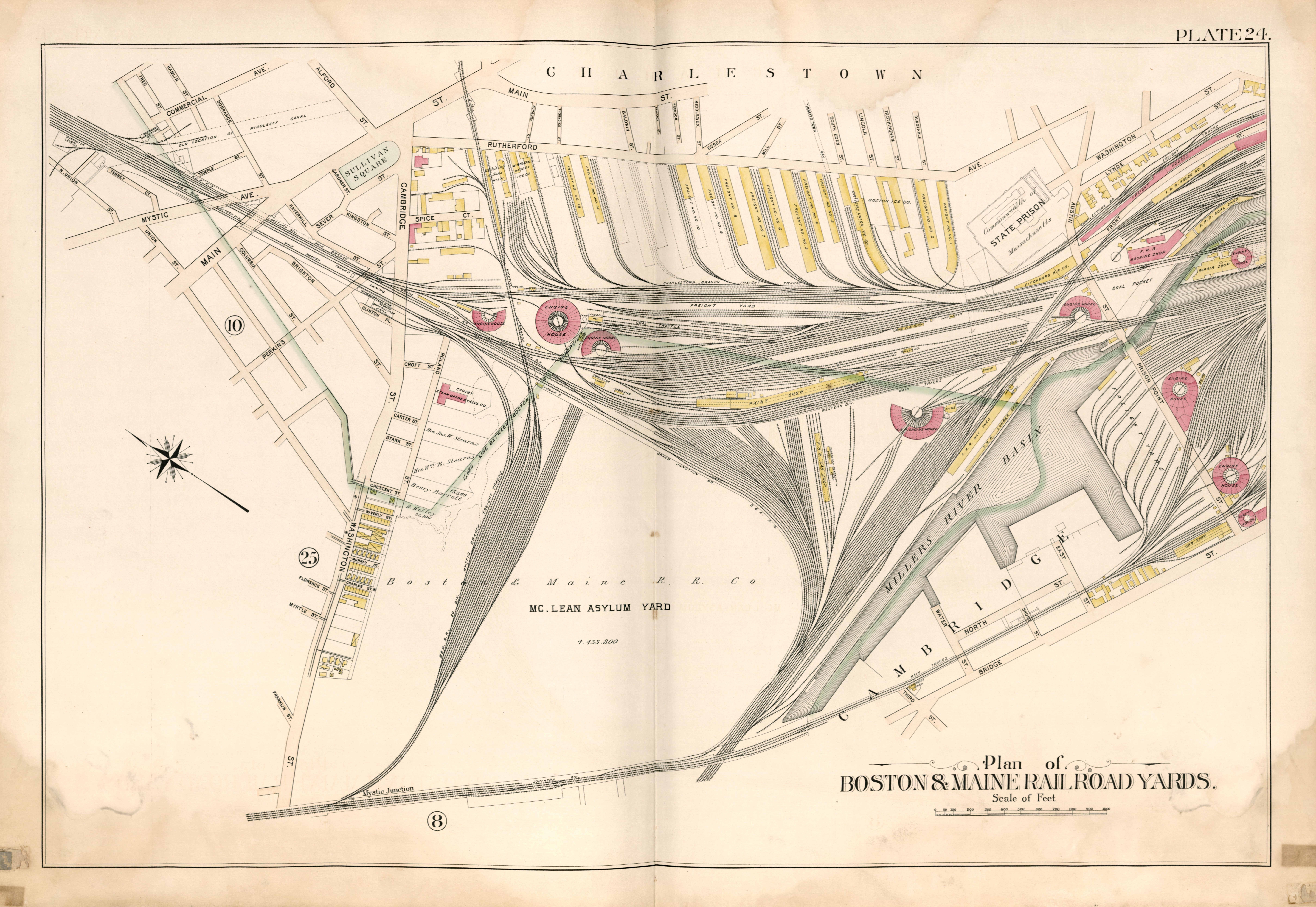 Includes index. Available also through the Library of Congress Web site as a raster image. LC copy has all pages mounted on cloth. LC copy imperfect: some liquid staining and smudging throughout.